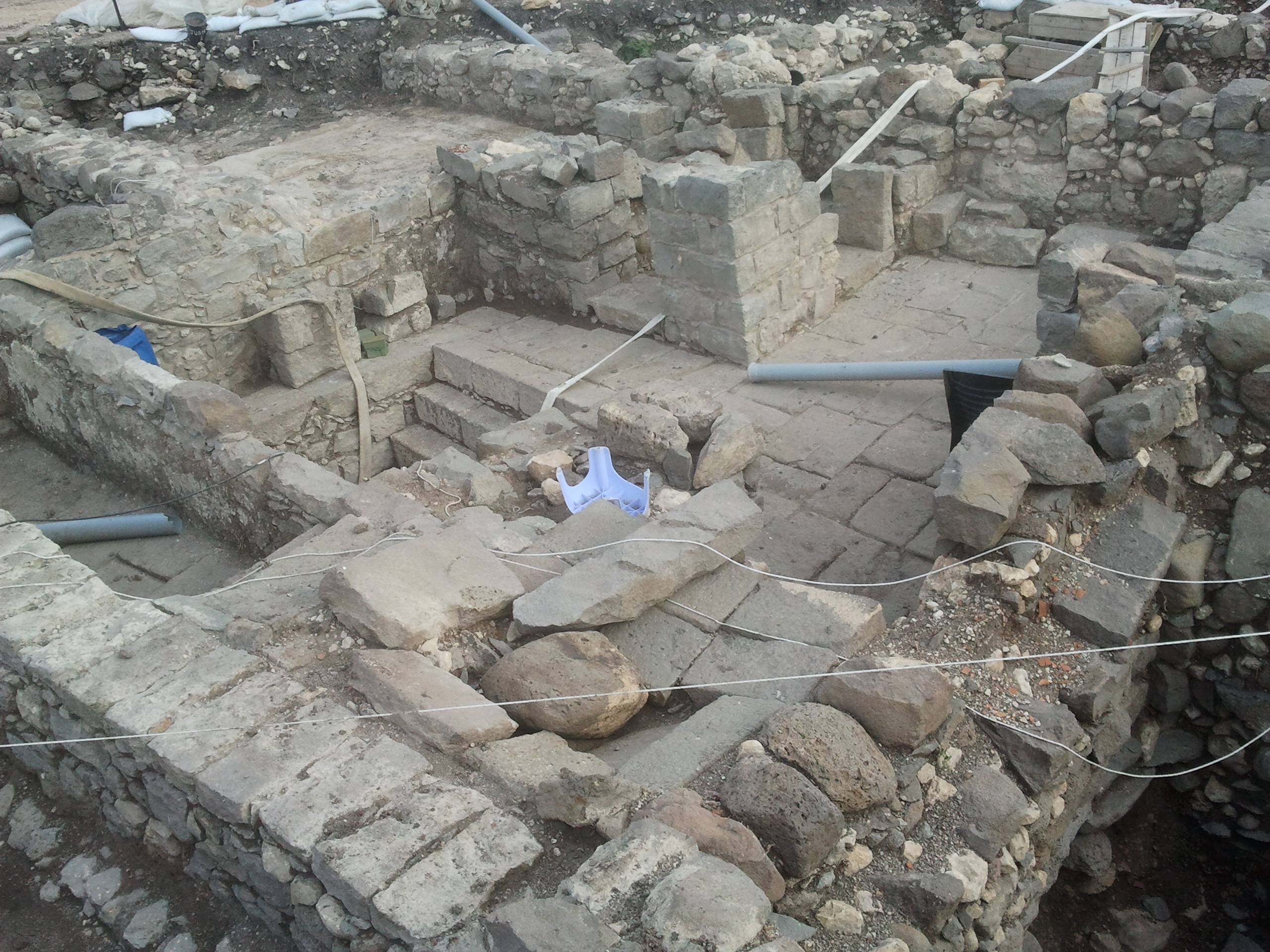 Magdala is the name of ancient town located on the shore of the Sea of Galilee